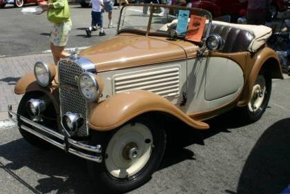 1931 American Austin photographed by DougW of in 2005 at a car show in Orange, CA.